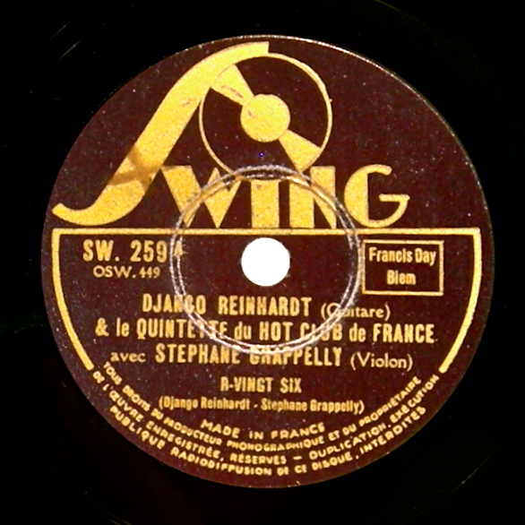 Swing album cover. Stéphane Grappelli & Django Reinhardt